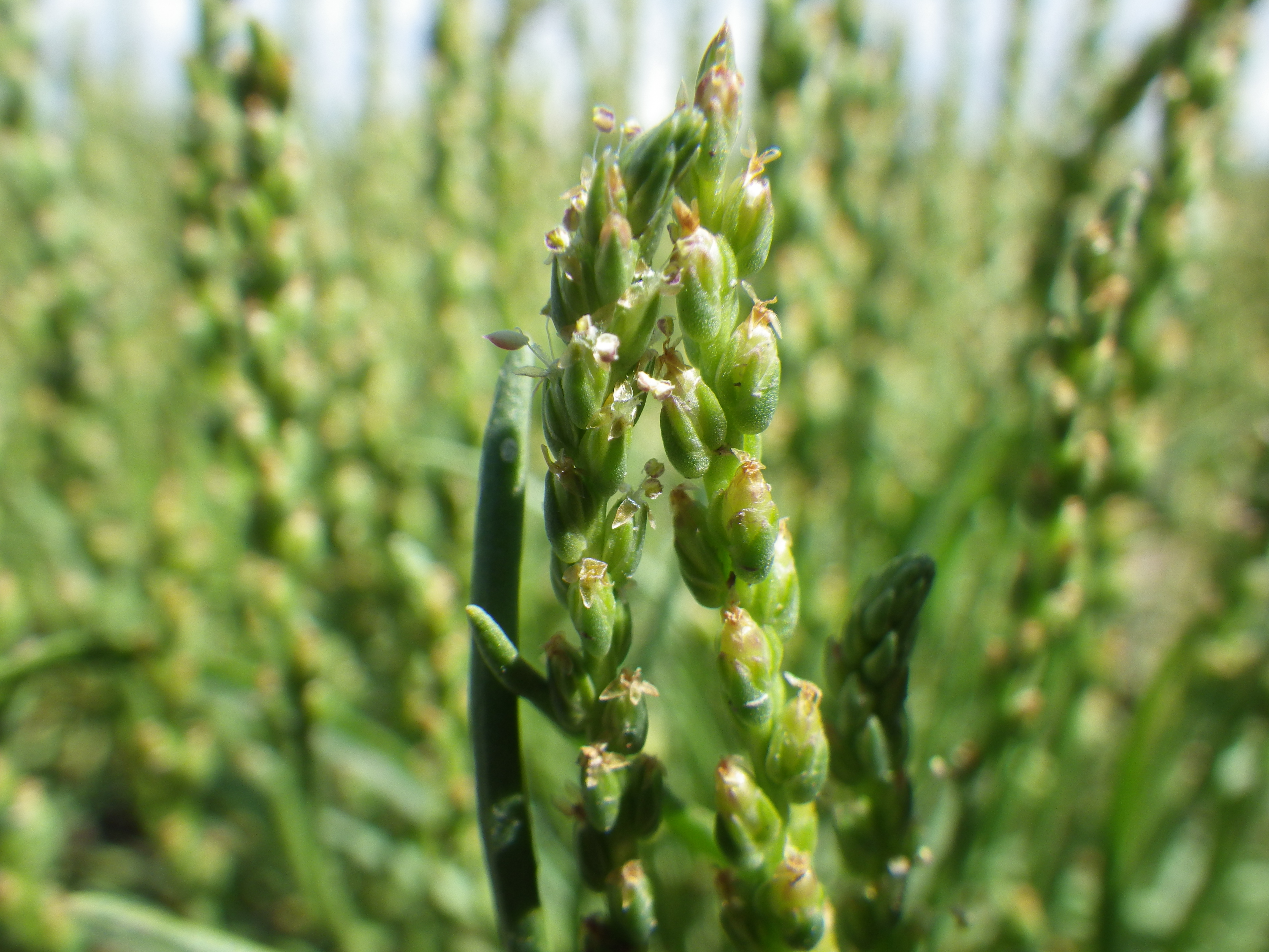 Plantago elongata is very abundant in disturbance-prone settings, especially in prairie dog towns; but is rare in sagebrush steppe with high native cover habitats. In Montana.